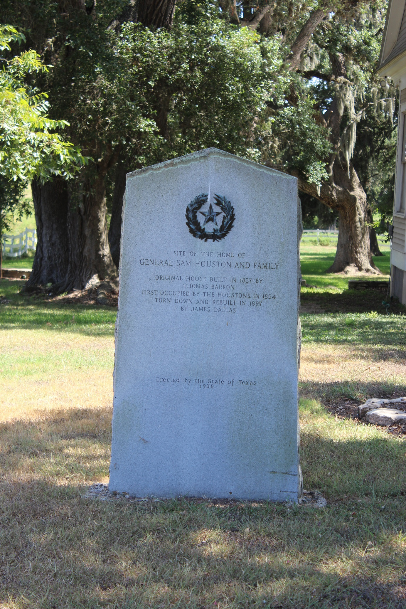 Houston, Gen. Sam, Site of Home. #14923